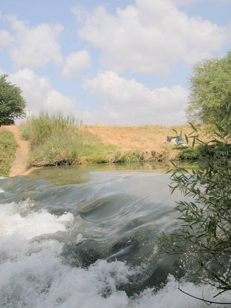 Jordan River during winter.